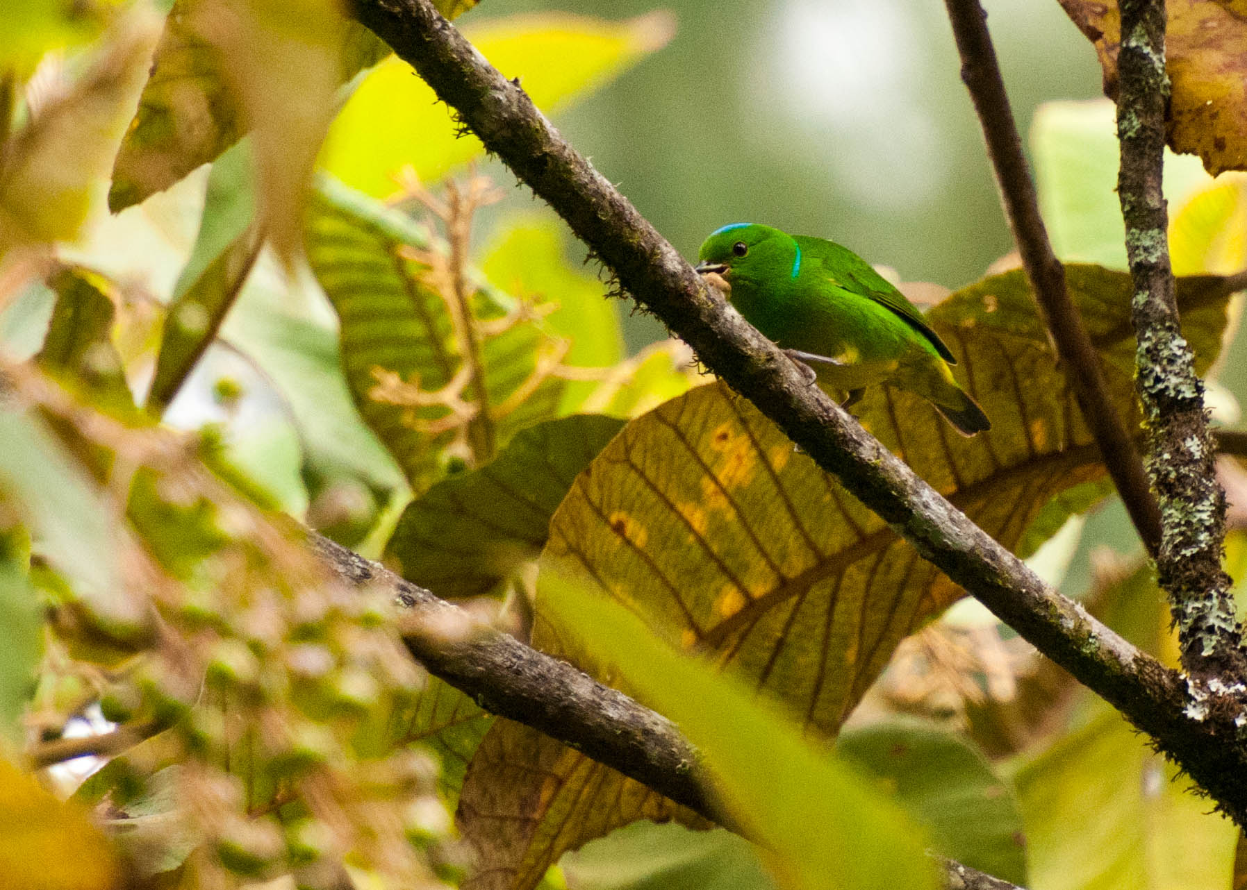 Blue-crowned Chlorophonia (Chlorophonia occipitalis)